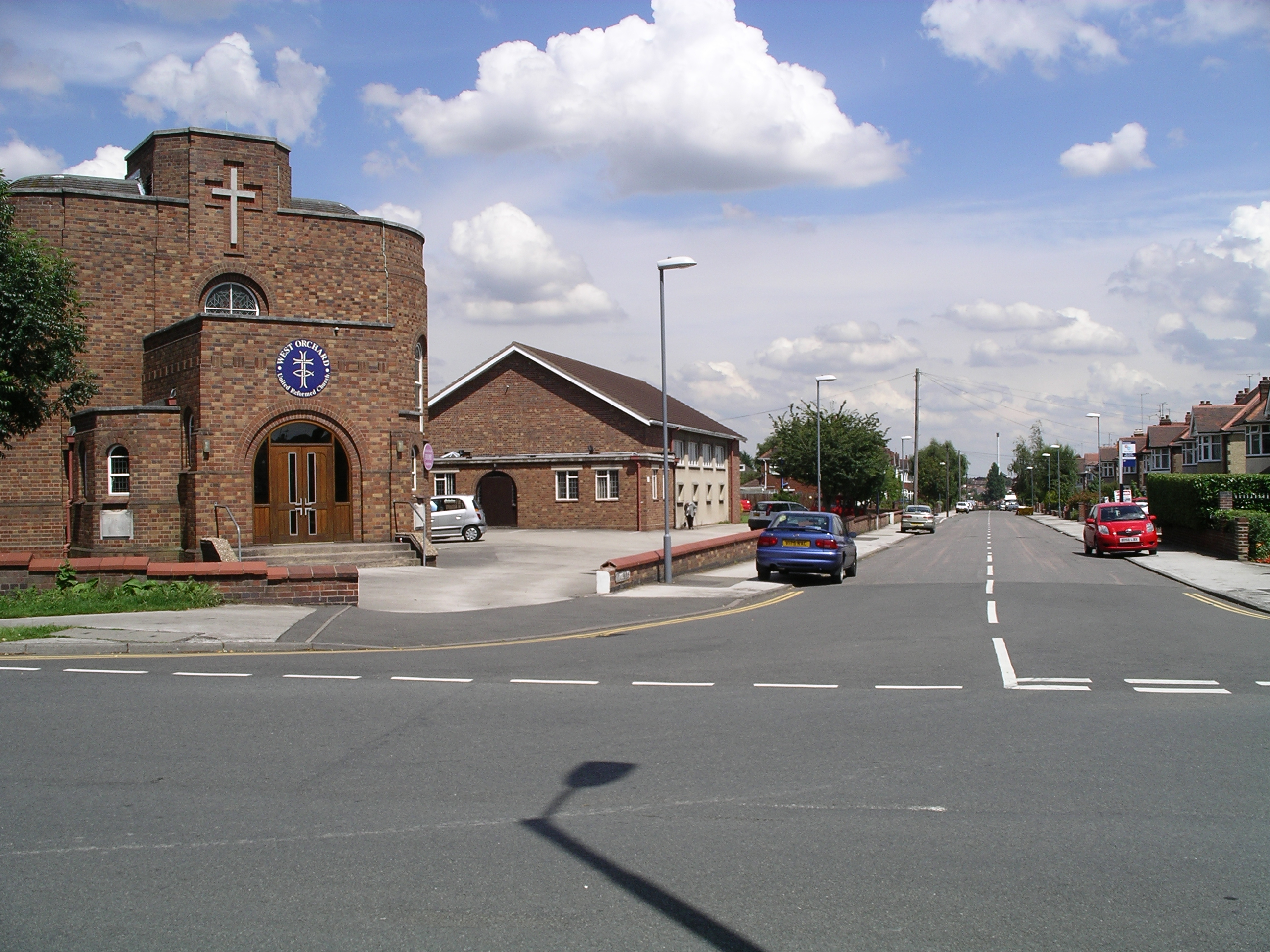 Photo of West Orchard United Reformed Church at the top of The Chesils, Stivichall, Coventry, England.